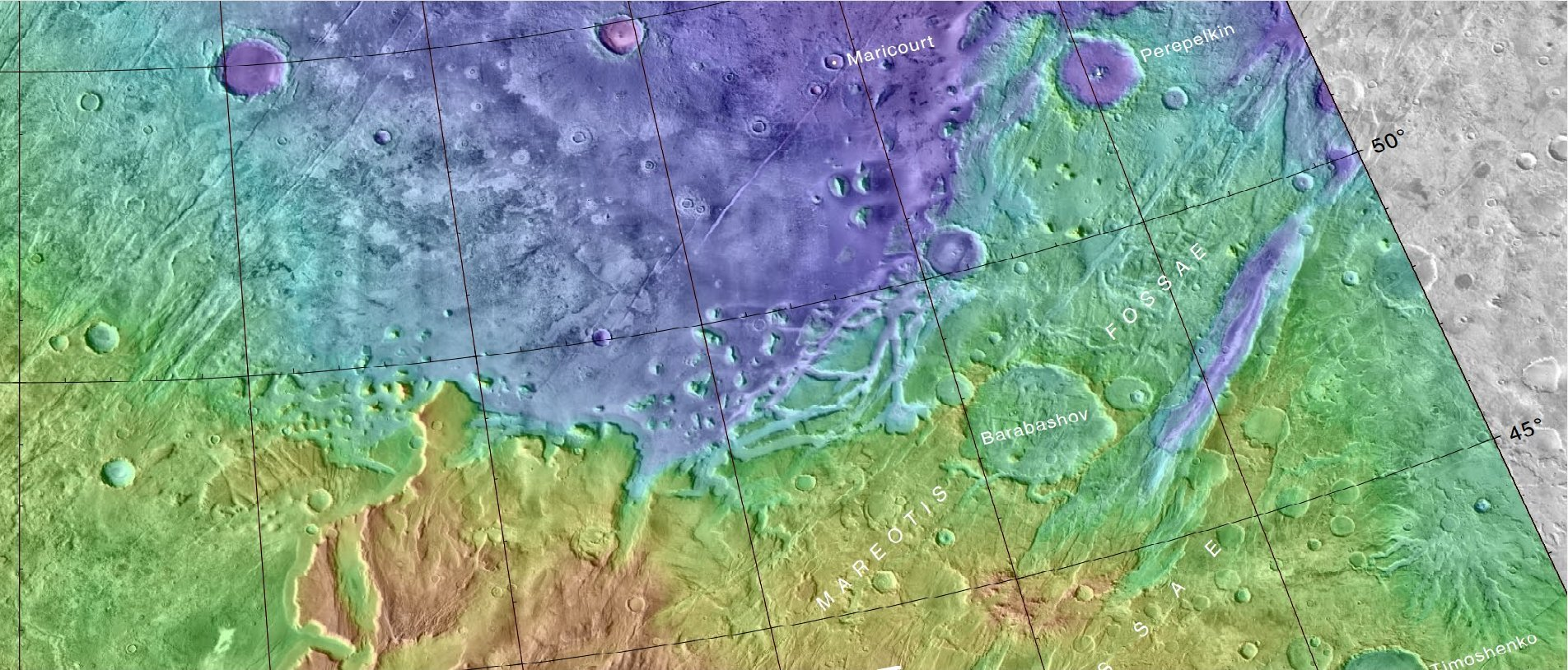 Map showing location of Barabashov Crater in relation to other craters